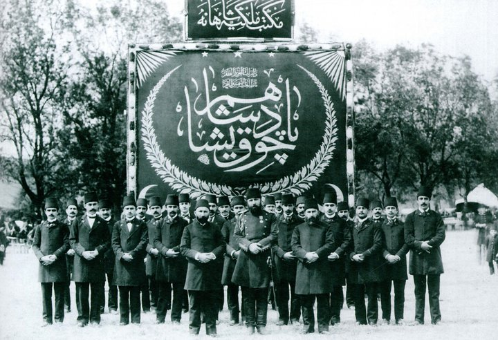 The Ottoman Imperial School of Civil Administration, "Long Live My Sultan".